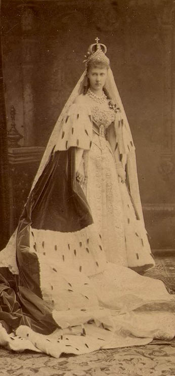 Grand Duchess Elizaveta Mavrikievna of Russia on her wedding day, April 27, 1884